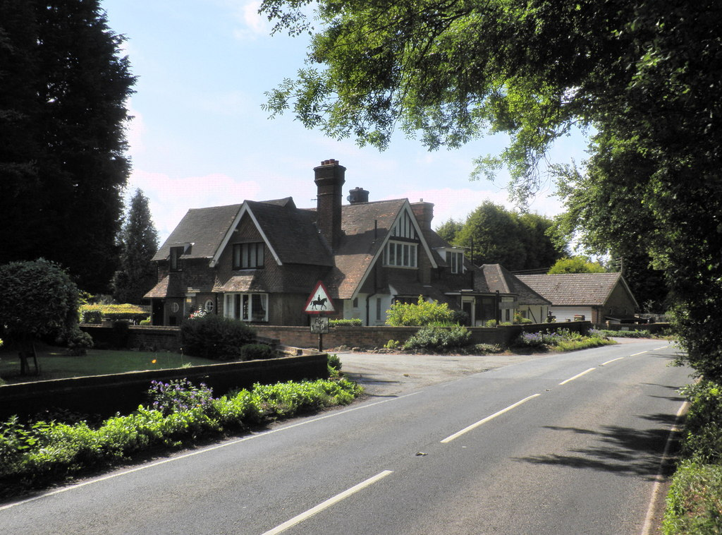 Westerham Heights Farm on the A233 road in Westerham, Kent, England, and adjacent to the border with the London Borough of Bromley.